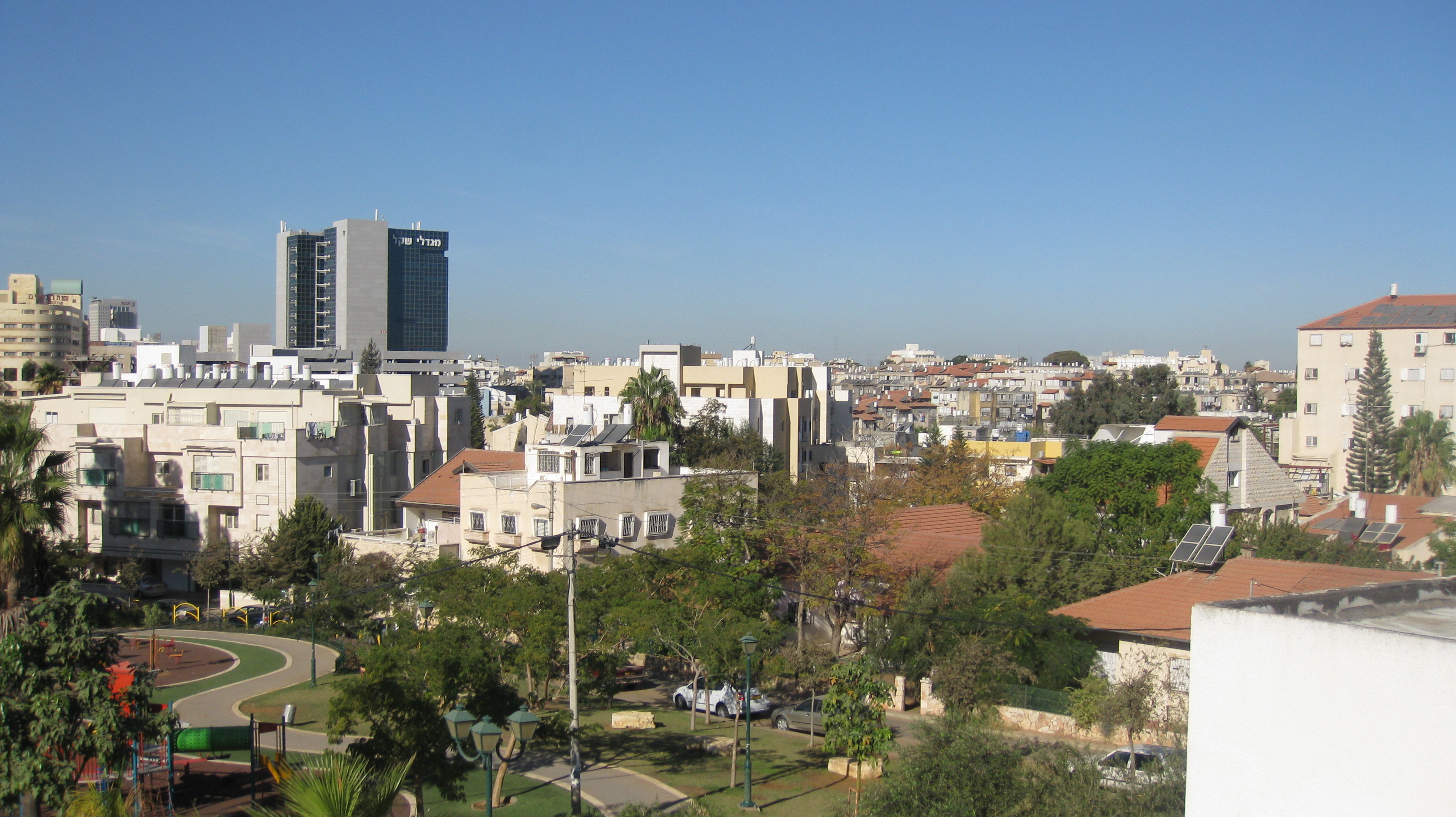 Bnei Brak